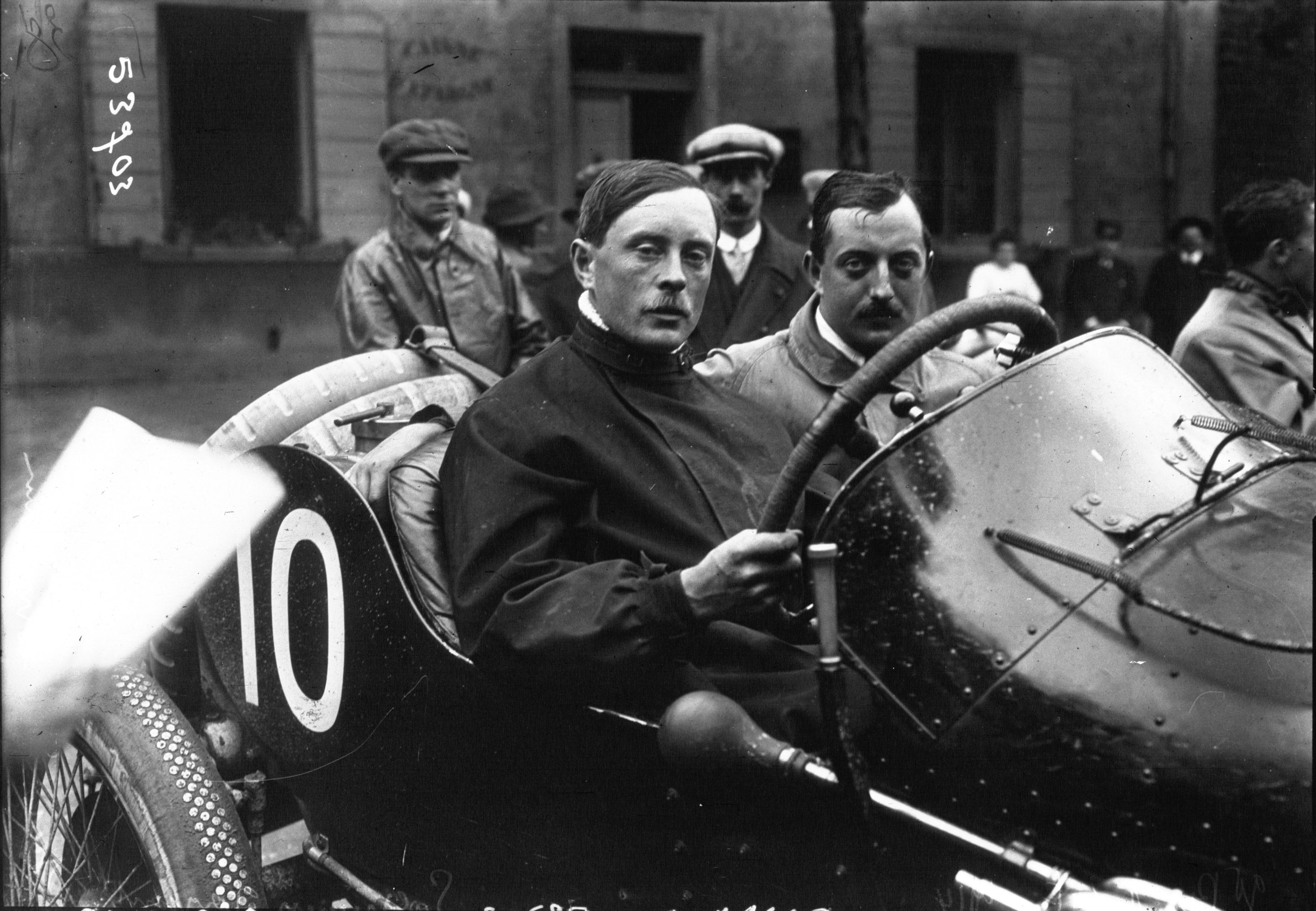 Kenelm Lee Guinness at the 1914 French Grand Prix